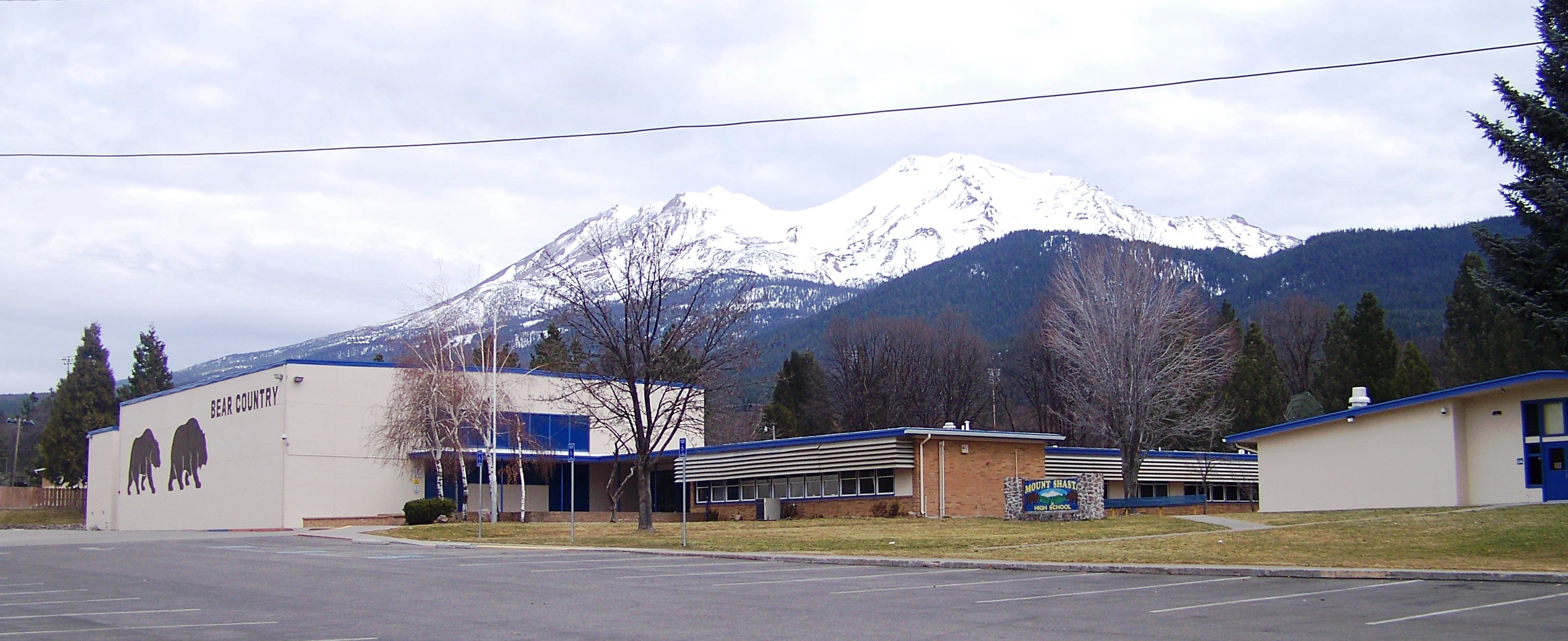 Mt. Shasta High School — in the town of Mount Shasta, southern Siskiyou County, California. Mount Shasta is in the distance.